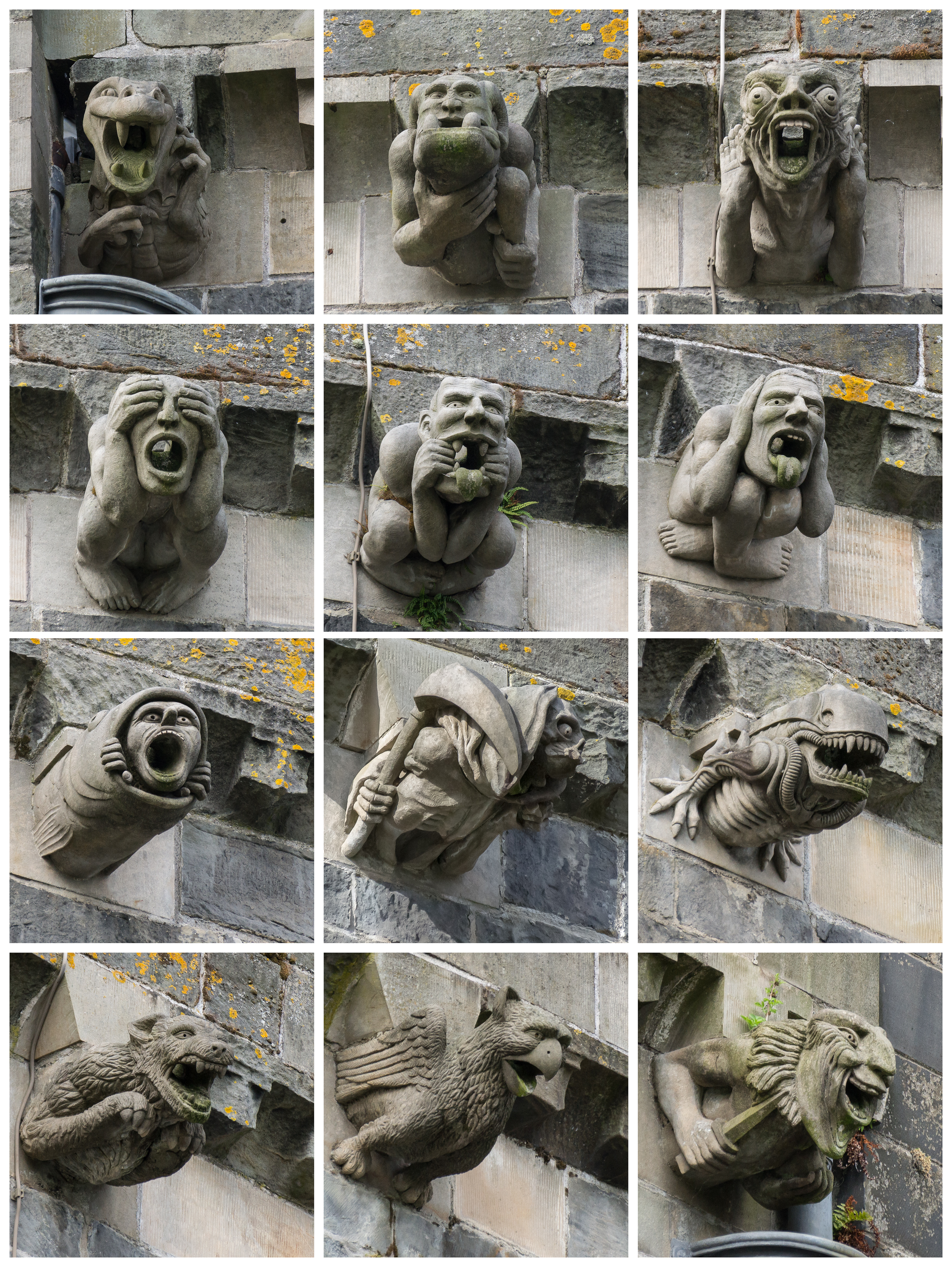 The 12 Paisley Abbey gargoyles that were replaced in 1991. The set includes "see no evil", "speak no evil", "hear no evil" and an "alien".